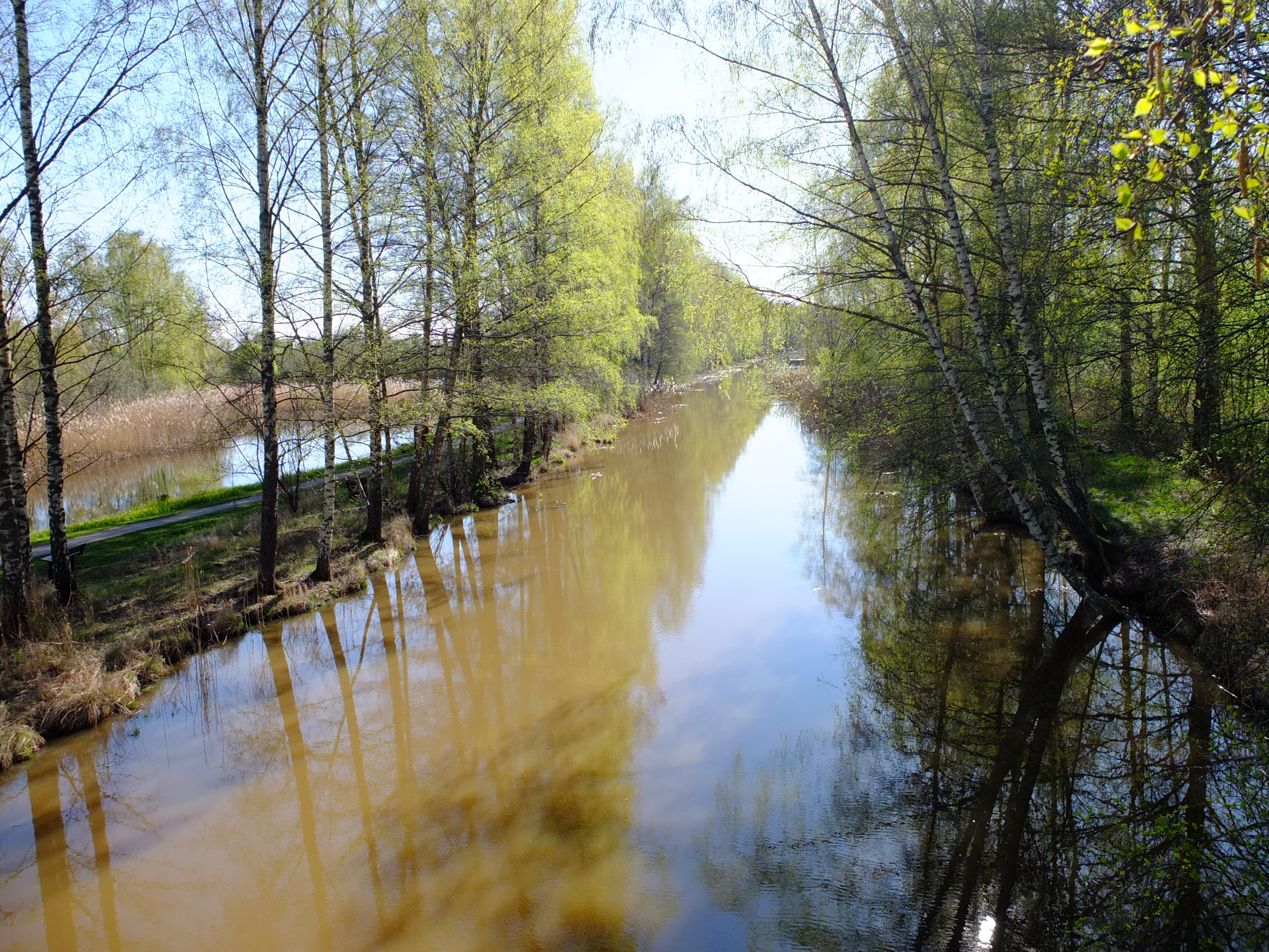 The river Lillån at Vattenparken, Örebro, Sweden